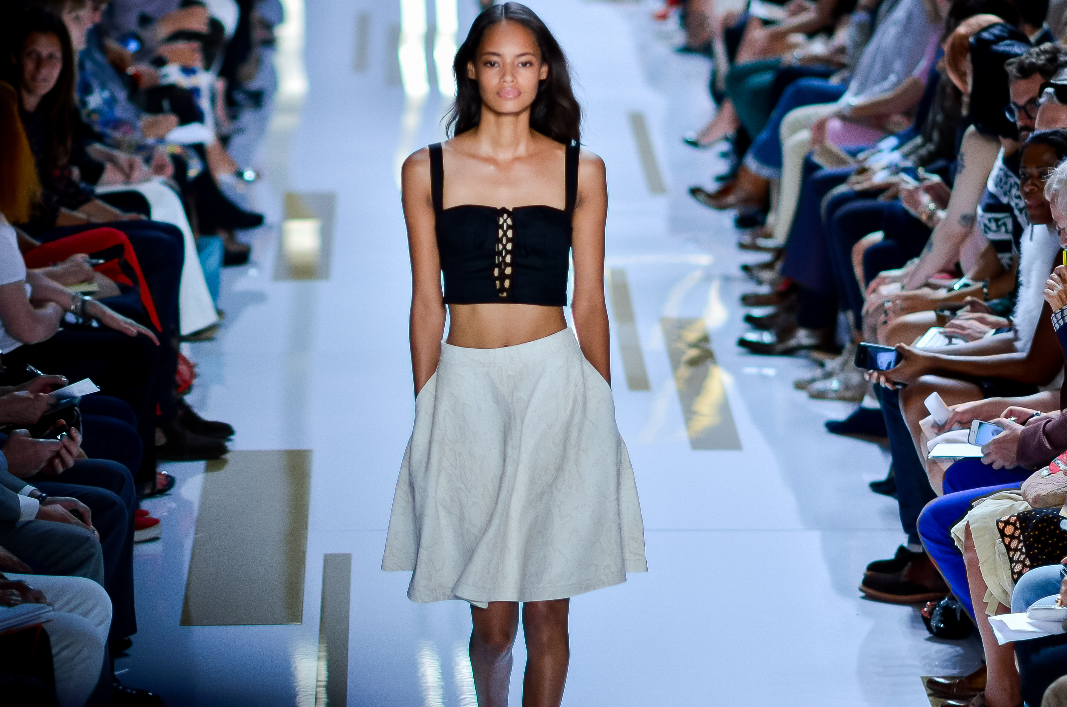 Model Malaika Firth at the Diane von FürstenbergSpring/Summer 2014 fashion show on September 11, 2013 at New York Fashion Week. Photo by Christopher Macsurak